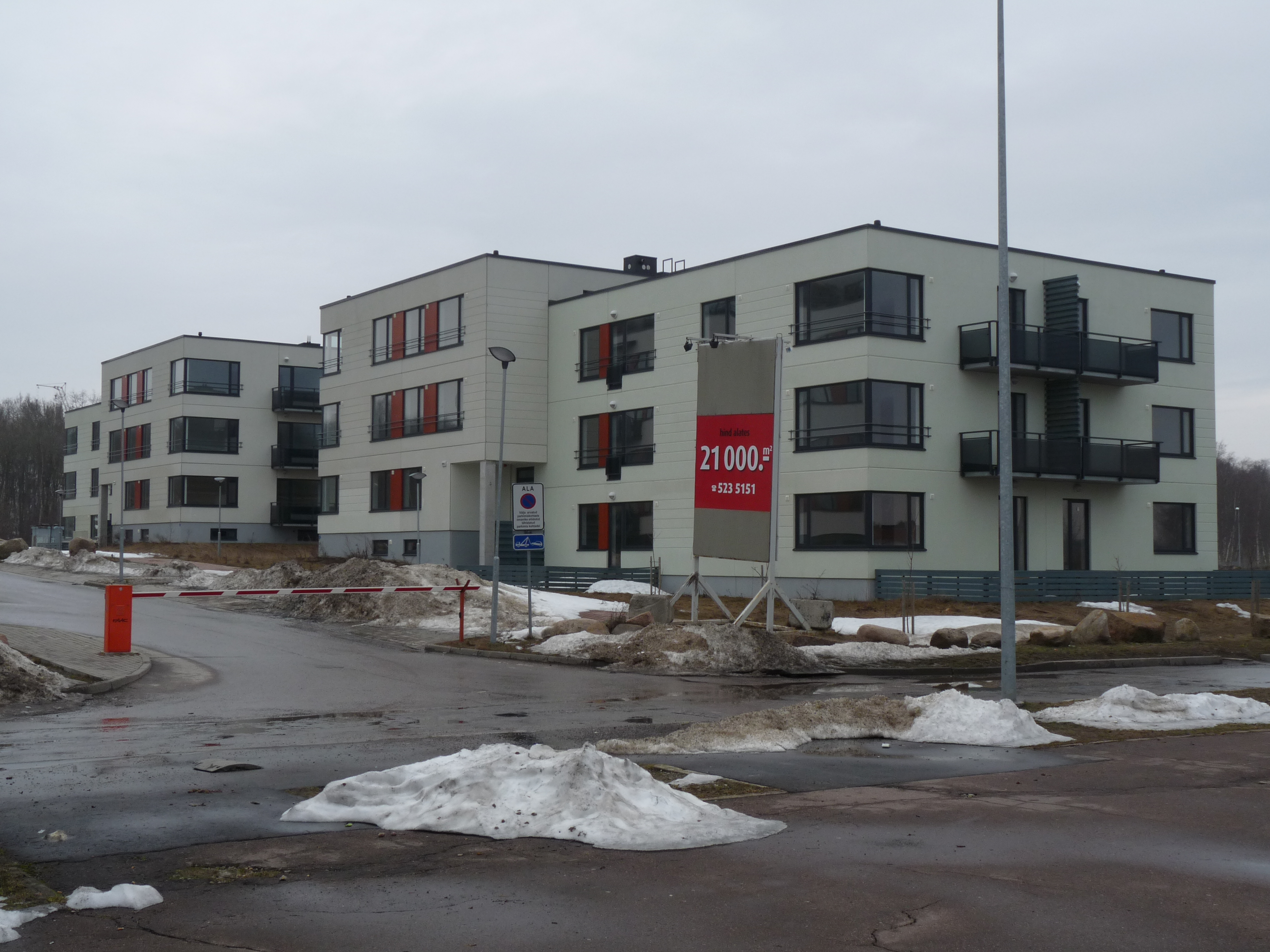 Empty apartments in Kase street